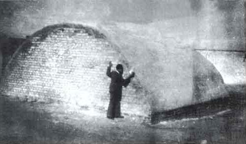 Judaism in Iraq, Mass grave of victims of the Farhud, 1941. Scanning of a page from the book 'Iraq' (edited by Haim Saadoun), published by the Ministry of Education and the Ben - Zvi, Jerusalem, (5762, 2002) page 17.